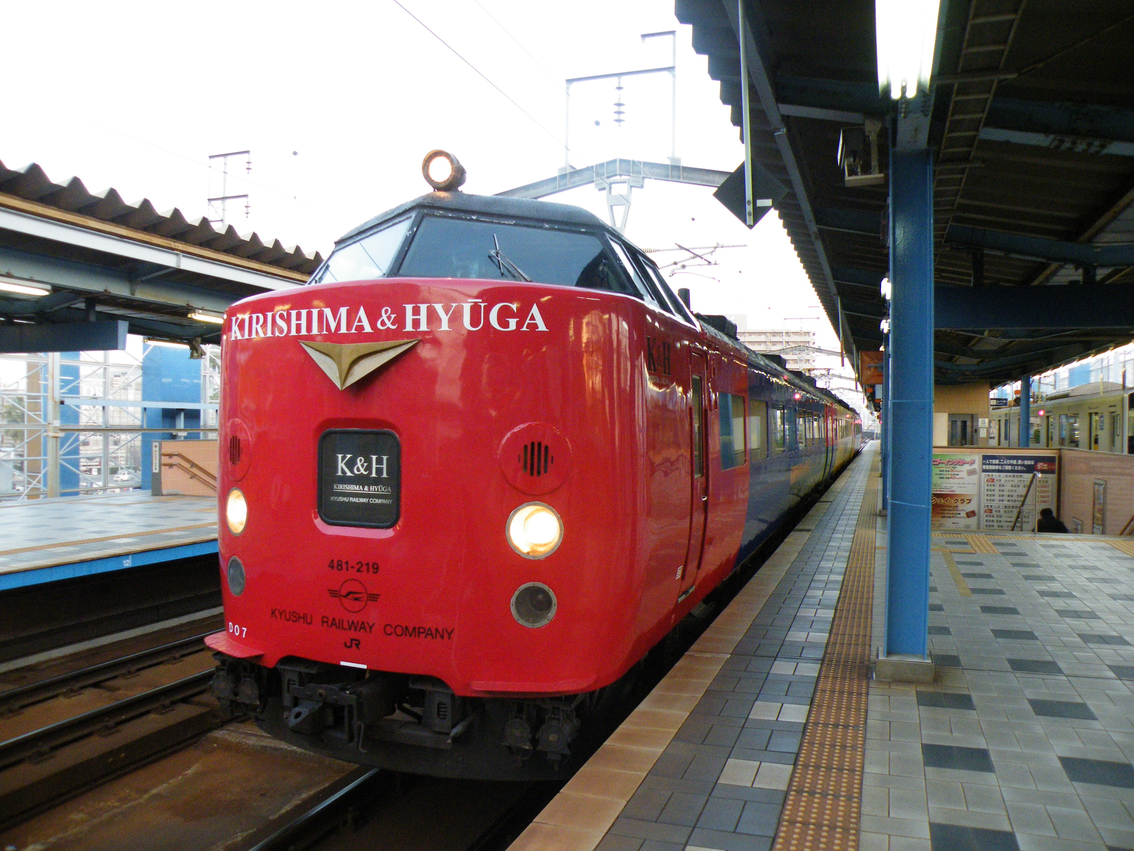 JRKyushu 485 Kirishima&Hyuga